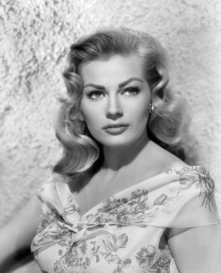 Photo of Anita Ekberg. The photo has no copyright markings on it as can be seen in the links above.